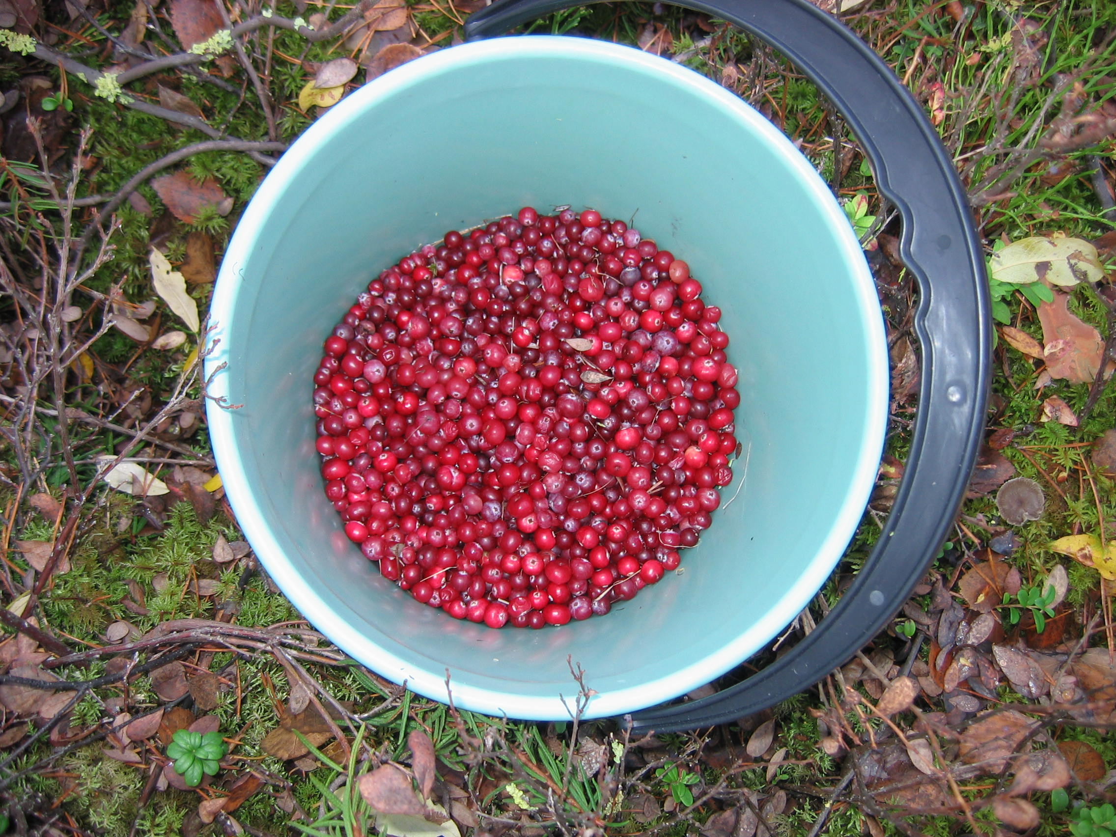 Cranberries in a bucket, picked from an open bog in Northern Finland.